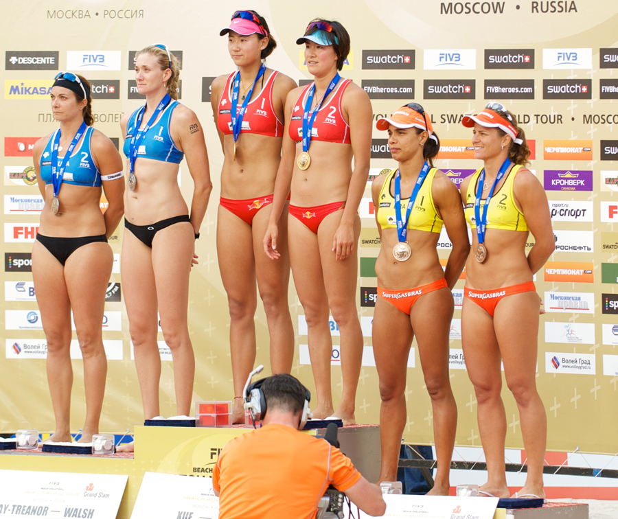 Grand Slam Moscow 2012